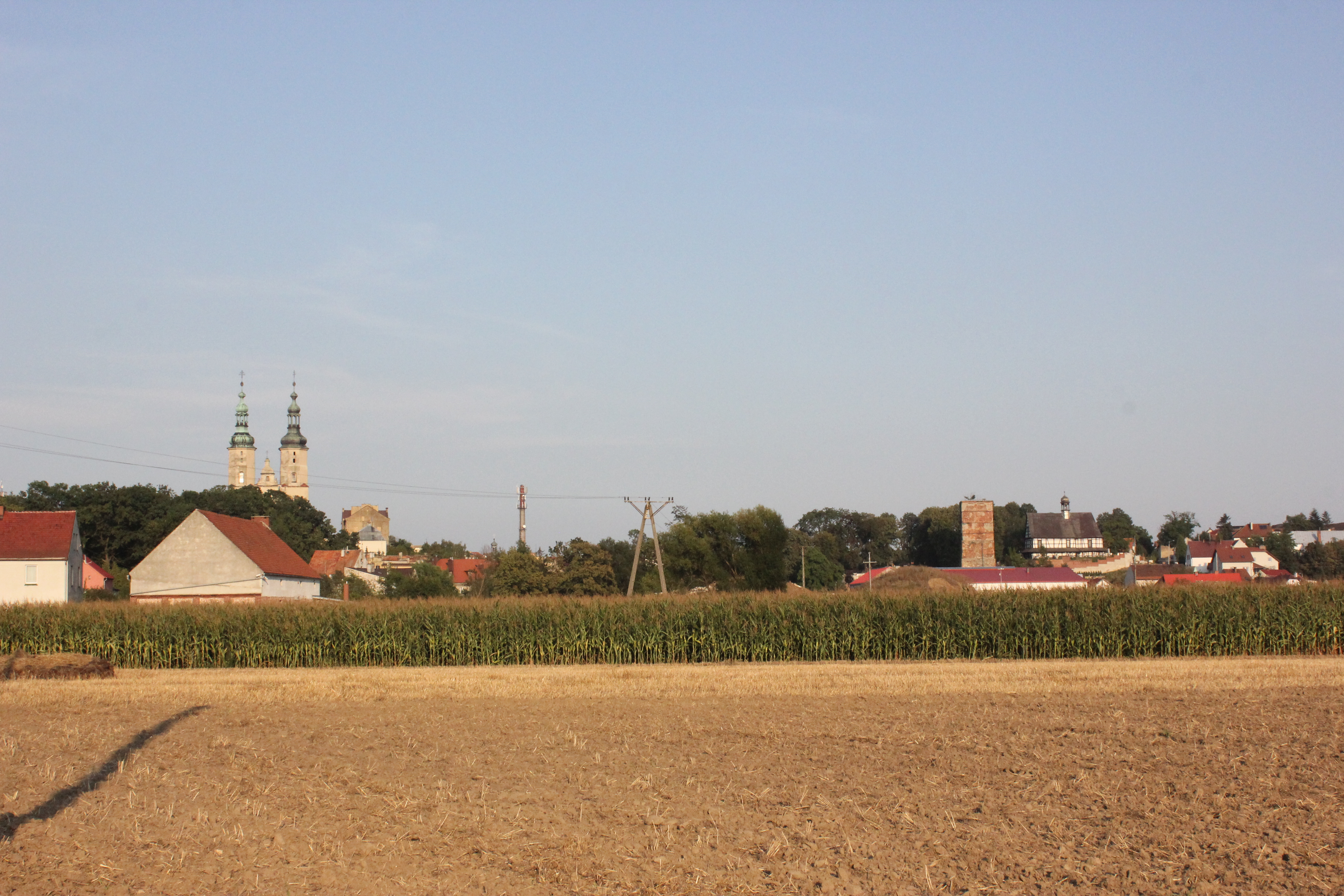 Głogówek - view of the town from south